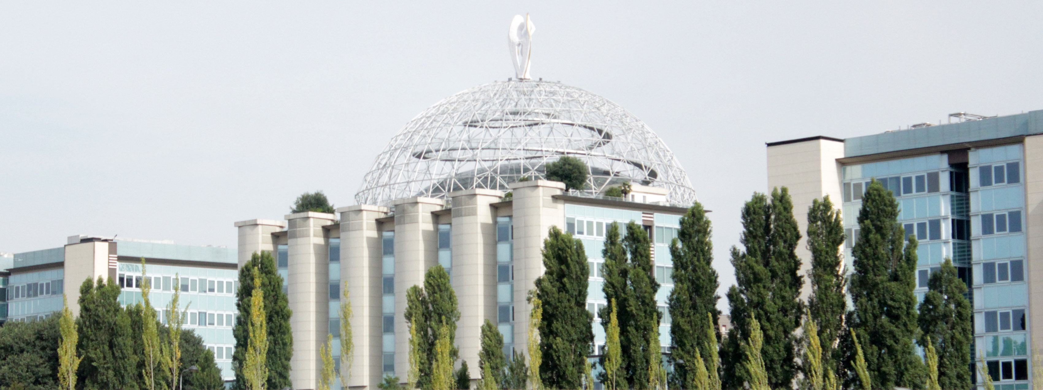 San Raffaele Hospital from highway A51